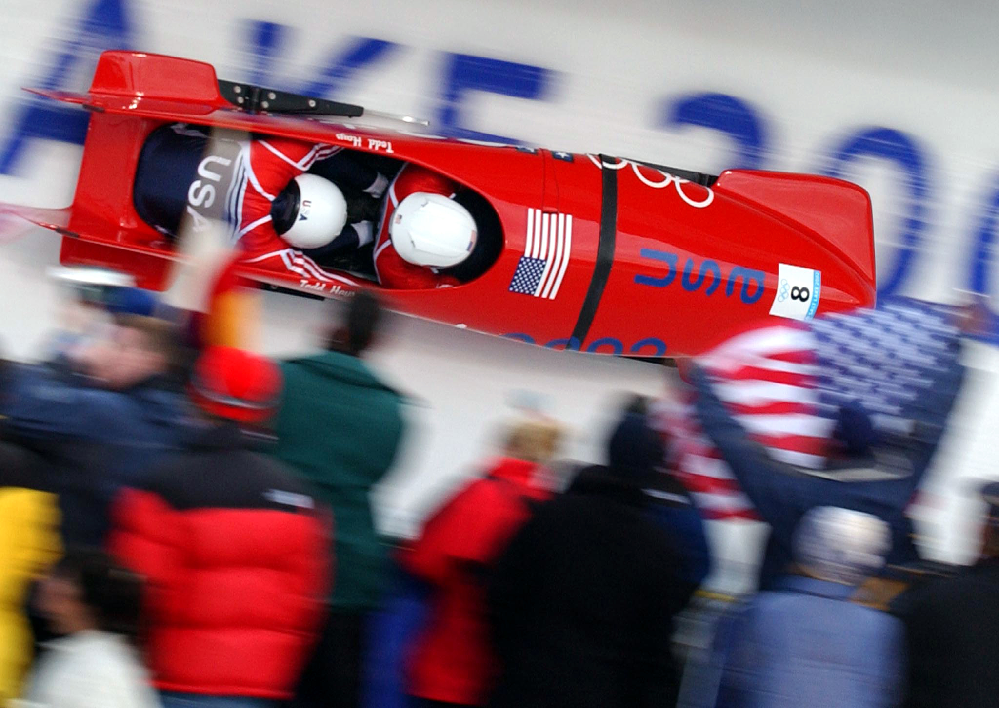 020213-N-3995K-002 Park City, UT (Feb. 16, 2002) -- U.S. Army 1st Lt. Garret Hines and driver Todd Hays of the U.S. Bobsled Team make their way down the track at Utah Olympic Park during the men's two-man bobsled event at the 2002 Winter Olympic Games. U.S. Navy photo by Journalist 1st Class Preston Keres. (RELEASED)